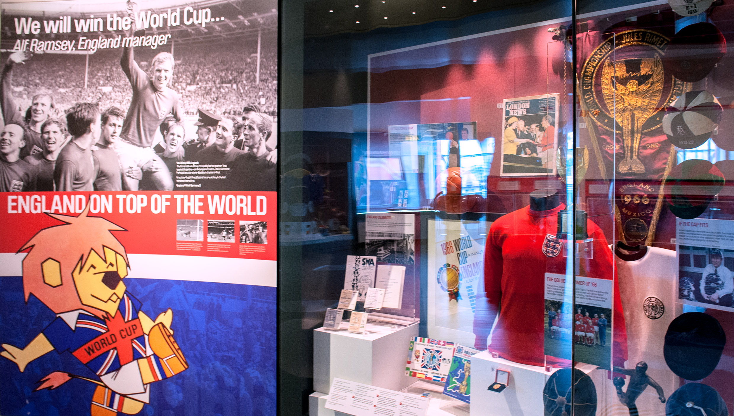 National Football Museum, Manchester.